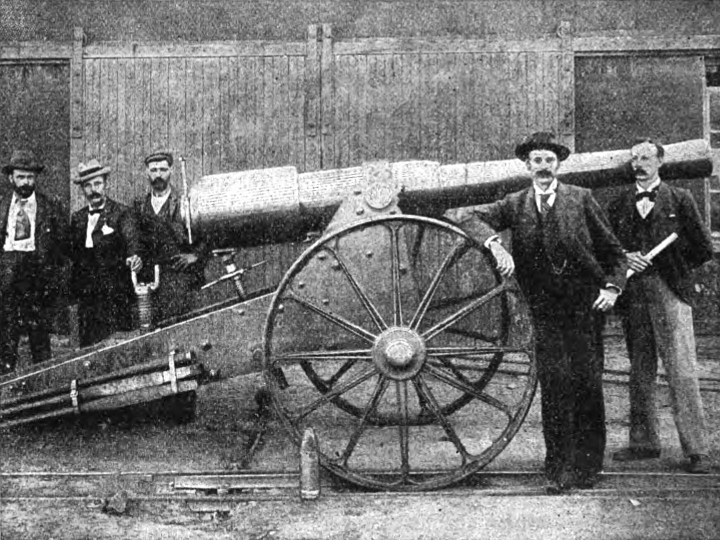 George Labram leaning on Long Cecil, as published in "Cassell's History of the Boer War, 1899-1902 by Richard Danes"